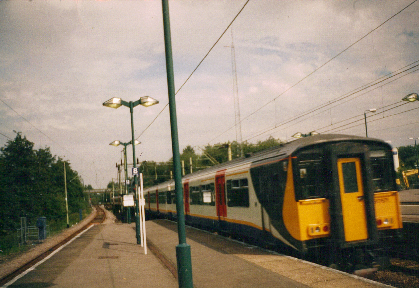 A WAGN EMU travels through Harlow station in 2001.